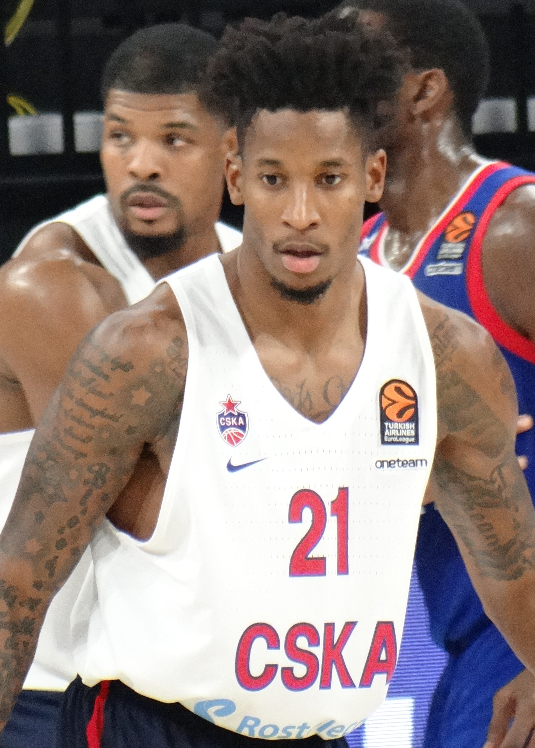 Will Clyburn 21 PBC CSKA Moscow 20171027